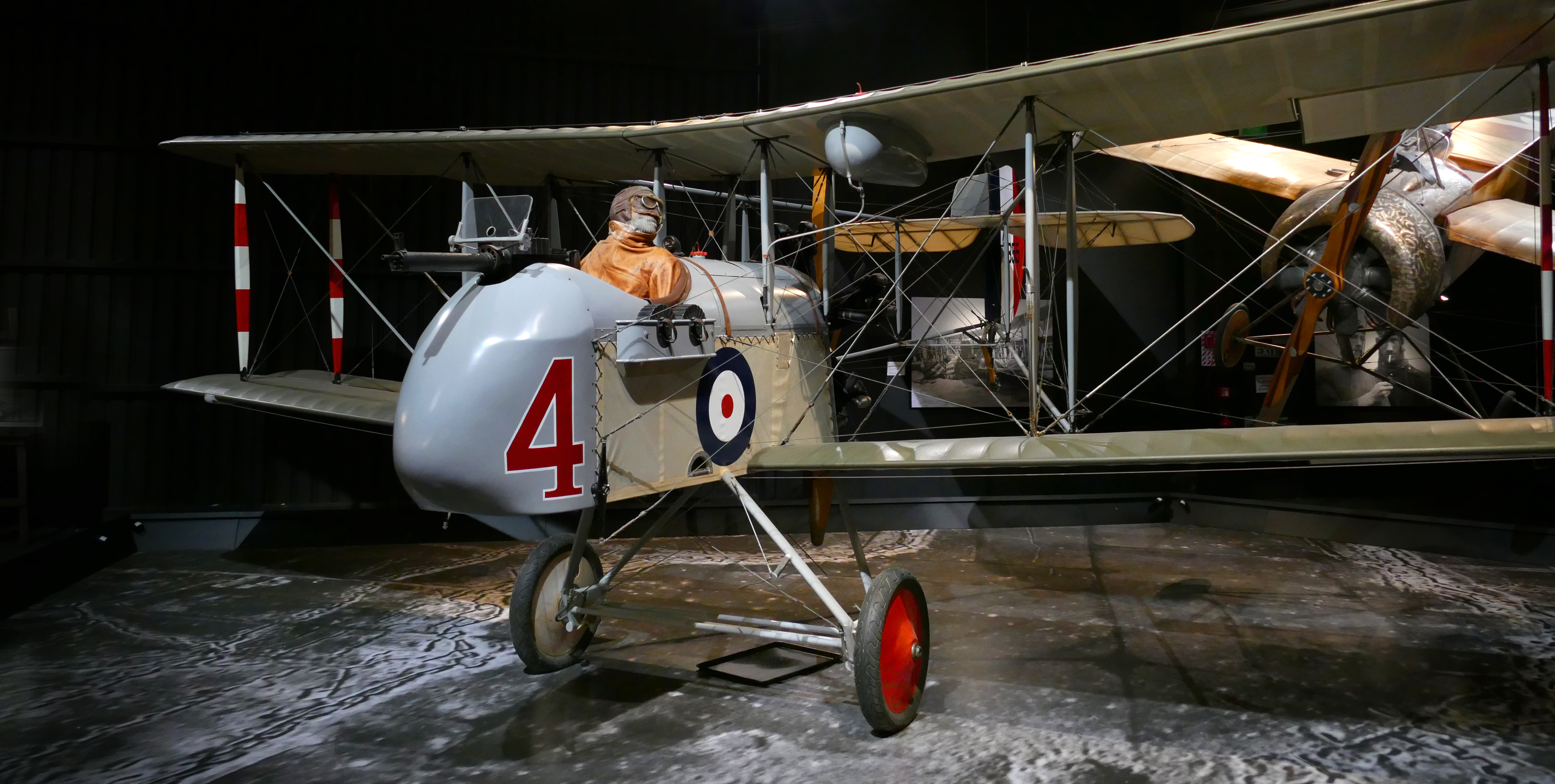 Developed in 1915, the DH-2 biplane was one of the first effective British fighters of World War One. Designed by Geoffrey de Havilland, the DH-2 was a response to the arrival of the Fokker Eindecker appearing over the Western Front. One of the first true fighters, the Eindecker began the "Fokker Scourge" which saw the Germans gain a decisive aerial advantage over the aging British and French aircraft. A pusher biplane, the DH-2 featured a forward-firing .30 caliber Lewis machine gun mounted in the cockpit. Together with the Nieuport 11, the DH-2 was decisive in regaining Allied air superiority in the early months of 1916. In the stunning rate of generational aircraft development that marked the First World War, the DH-2 was eclipsed later that year by the next generation of German aircraft and was gradually withdrawn from frontline service. The Omaka Aviation Heritage Centre is an aviation museum located at the Omaka Air Field, 5 km (3 mi) from the centre of Blenheim, New Zealand.